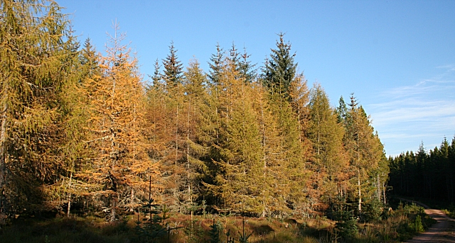 Autumn Larches Larch is often planted on the outside of a block of conifers, because it grows fast and provides shelter for slower-growing species. Quite why these should have been planted here in the middle of the forest I do not know, but they provide a welcome splash of autumnal colour.